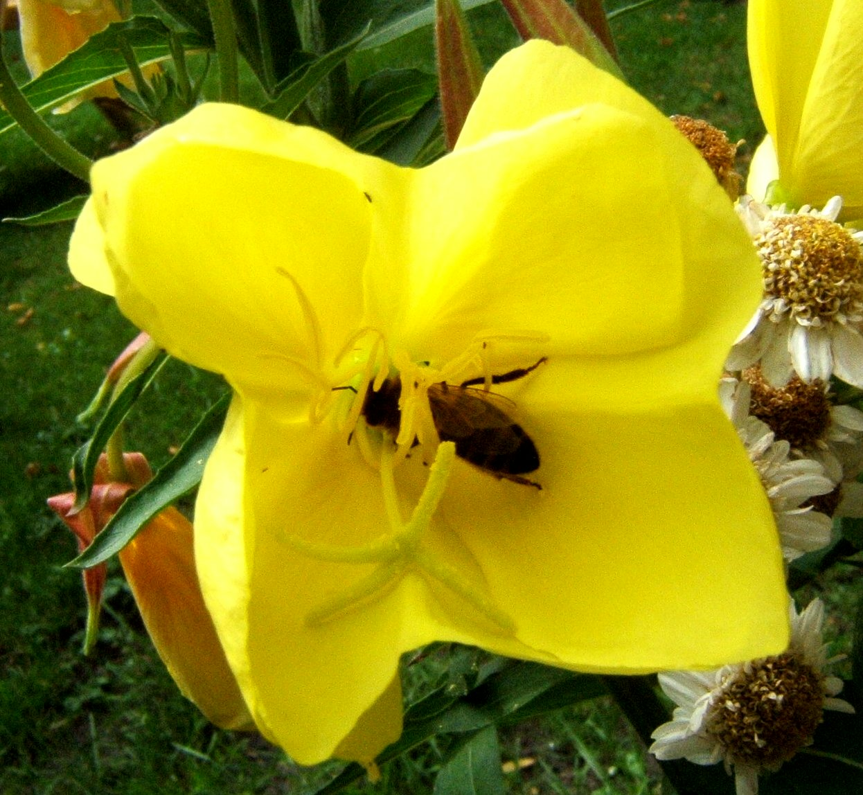 Oenothera glazioviana flower with nectar-seeking insect.